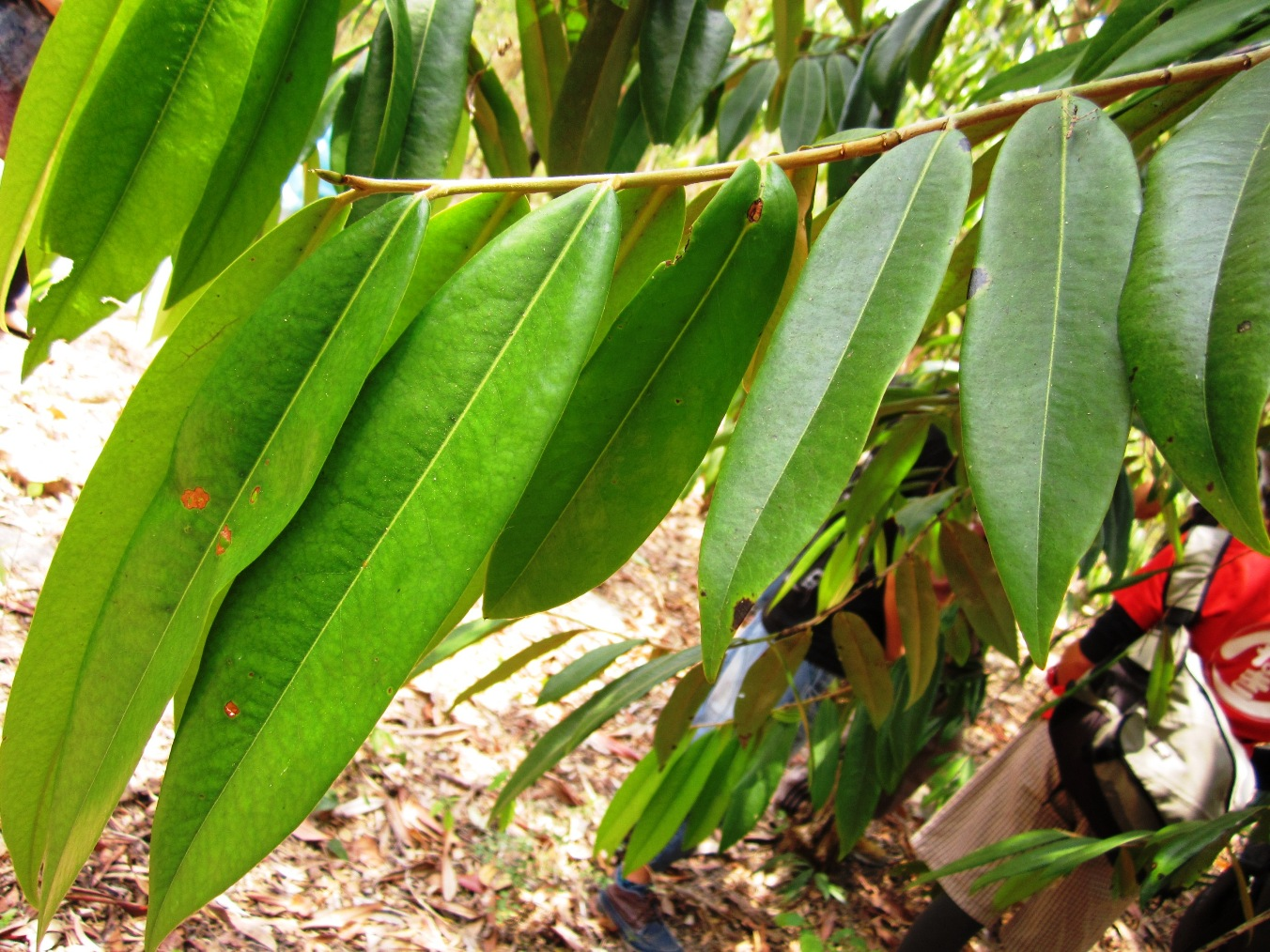 A branch of D. celebica, showing leaves. Wanagama Forest, Gunungkidul, Yogyakarta